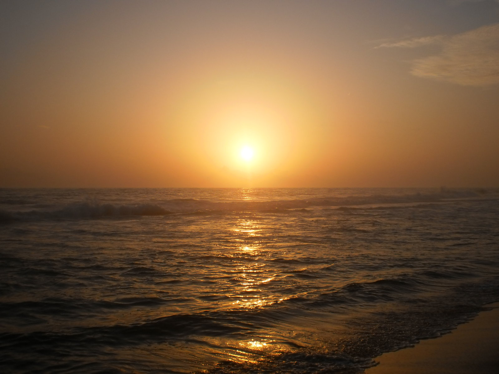 Sunset at Shankhumugham Beach, Kerala This media file is uploaded with Malayalam loves Wikimedia event - 2.